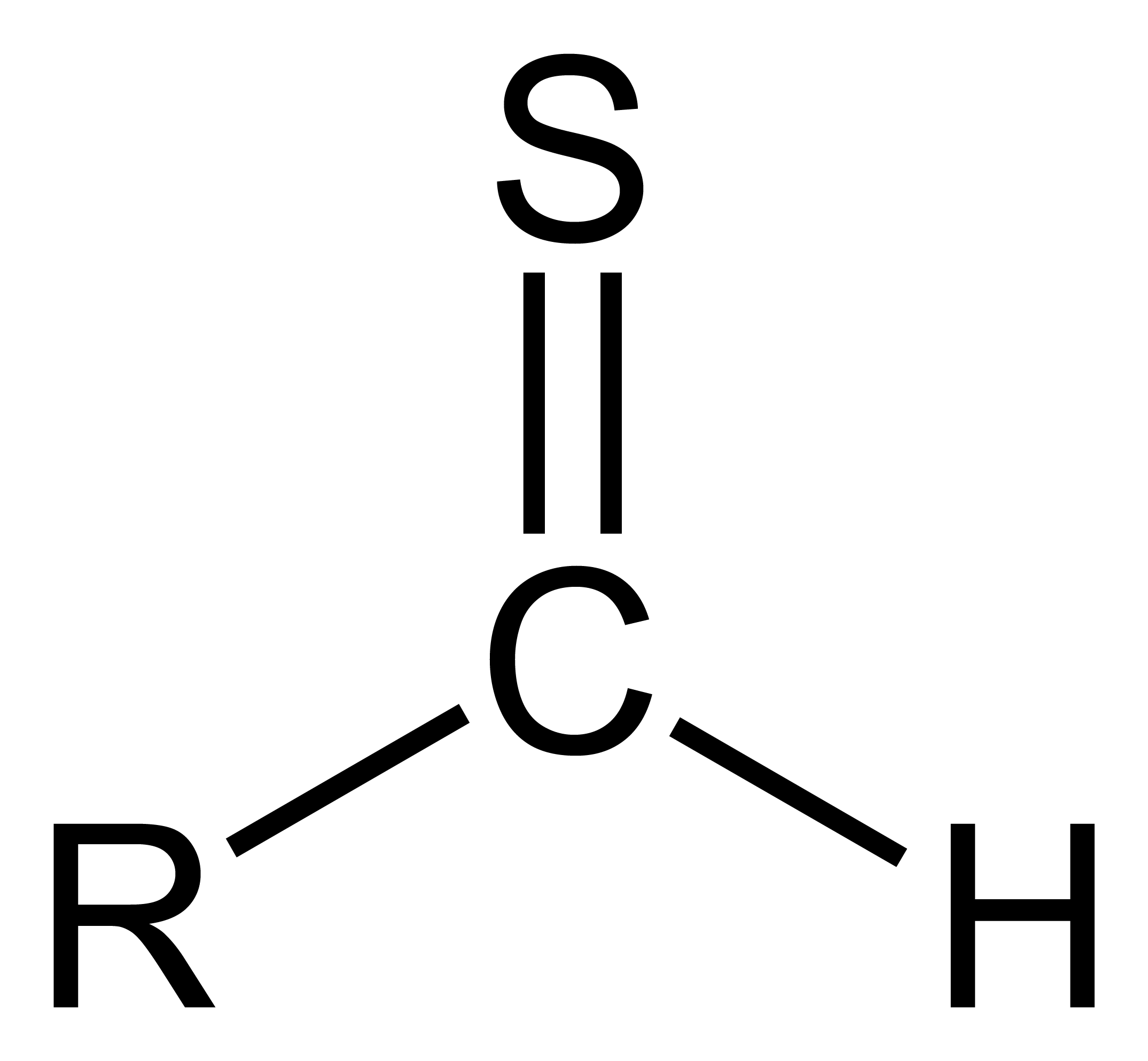 General structural formula of thioaldehydes (thials), RCHS